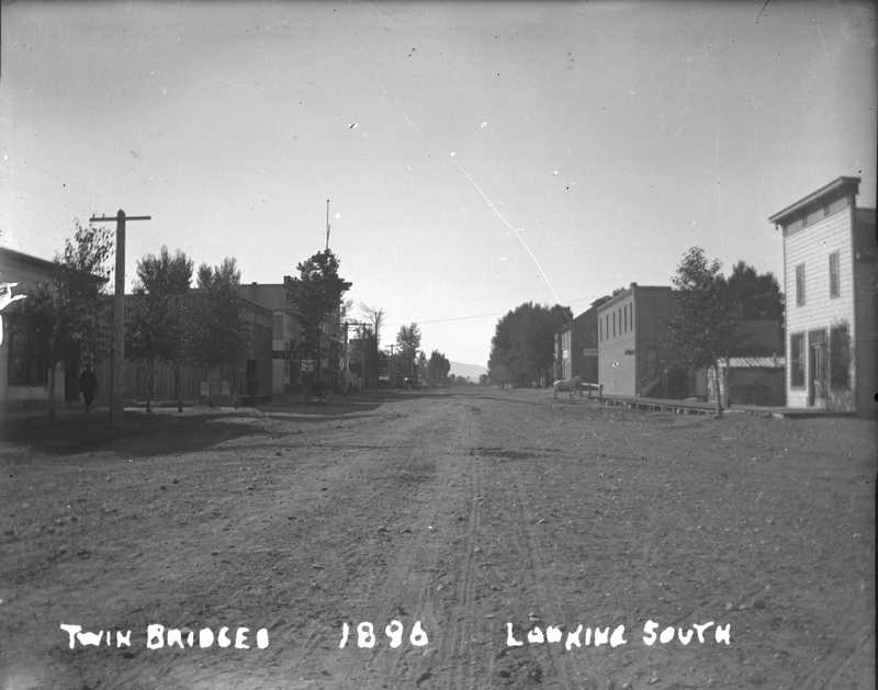 Title: Looking South Down Main Street in Twin Bridges, 1896 Creator: Unknown Date: 1896 Description: Twin Bridges Notes: None Keywords: main street, business districts, stores and shops, roads, twin bridges, madison county Genre: Cityscapes Physical Description: glass negative : B&W Object ID: 782 I represent Montana State University Library and we are releasing this image into the Creative Commons.